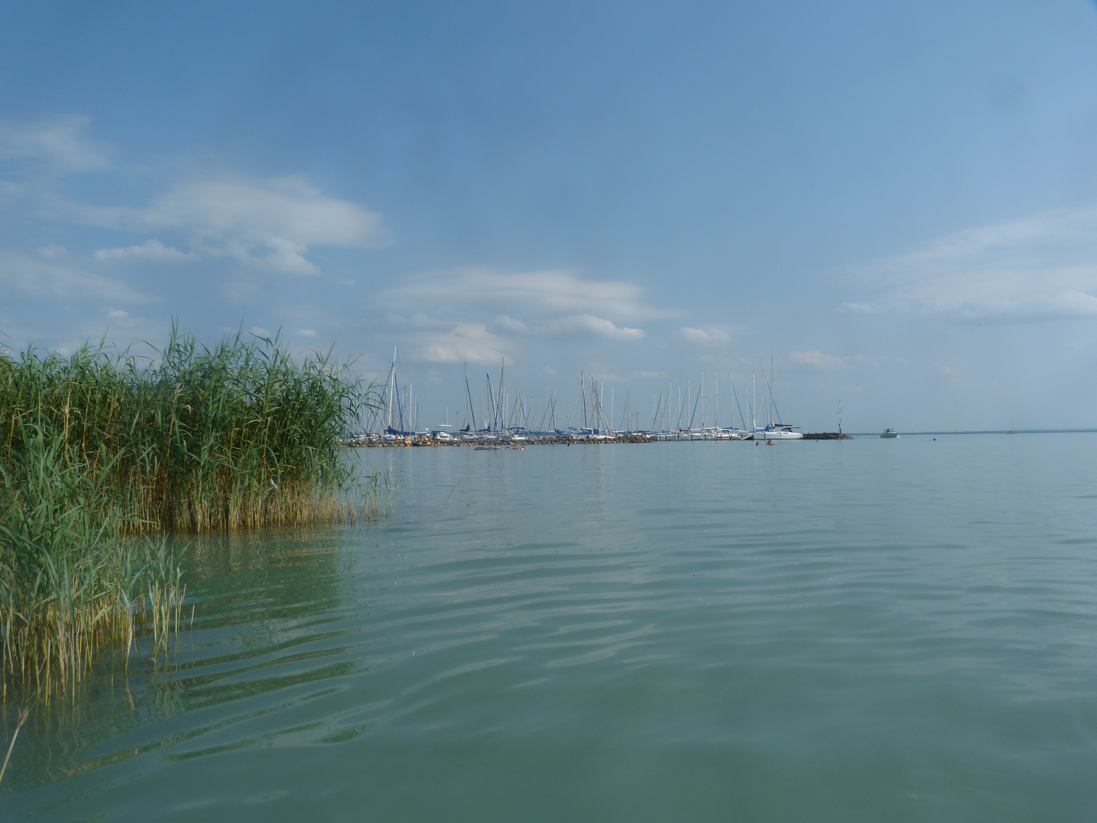 Wild Swimming Balaton: Balatonakarattya: Gumirádli szabadstrand Balatonberény: Csicsergő sétányi szabadstrand Balatonboglár: Platán strand és más szabadstrandok Balatonfenyves: Nagyszabadstrand, Csalogány közi szabadstrand, Balatonfenyves - alsói szabadstrand, István Király utcai szabadstrand, Balatonföldvár: Keleti szabadstrand, Központi szabadstrand, Nyugati szabadstrand Balatonkenese: Alsóréti szabadstrand Balatonmáriafürdő: Központi strand Balatonőszöd: Községi szabadstrand Balatonszárszó: Központi szabadstrand Balatonszemes: Berzsenyi utcai szabadstrand és élményfürdő Balatonudvari: Fövenyesi szabadstrand, Községi strand Balatonvilágos: Községi fizetős és Szabadstrand Fonyód: Sándortelepi, Árpád-parti szabadstrand, bélatelepi szabadstrand, Tungsram - Városi – szabadstrand Keszthely: Déli szabad strand Örvényes: Vadkacsa szabadstrand Siófok: Aranyparti szabadstrand, Szabadstrand a pesti vonathoz – Aranypart, Balatonszabadi szabadstrand, Újhelyi, Ezüstparti szabadstrandok Szántód: Rigó utcai szabadstrand, Beach Party szabadstrand Tihany: Gödrösi szabadstrand, Somosi szabadstrand Zamárdi: Bácskai utcai szabadstrand, Gyöngyvirág és Pipacs utcai szabadstrand, Jegenye téri szabadstrand, Keszeg utcai szabadstrand, Kiss Ernő utcai szabadstrand, Klapka utcai szabadstrand, T-Beach szabadstrand Zánka: Gyermek és Ifjúsági Centrum szabadstrand ©© Derzsi Elekes Andor, Budapest, 2015, Published in the Metapolisz DVD line. You are authorised to use this photo under Creative Commons – even for commercial, for profit purposes. The photo must be attributed to Derzsi Elekes Andor. All of the photos and vids in the Metapolisz DVD line are under Creative Commons and can be used even for commercial – for profit – purposes. Recommended Citation Derzsi Elekes Andor: Metapolisz DVD line